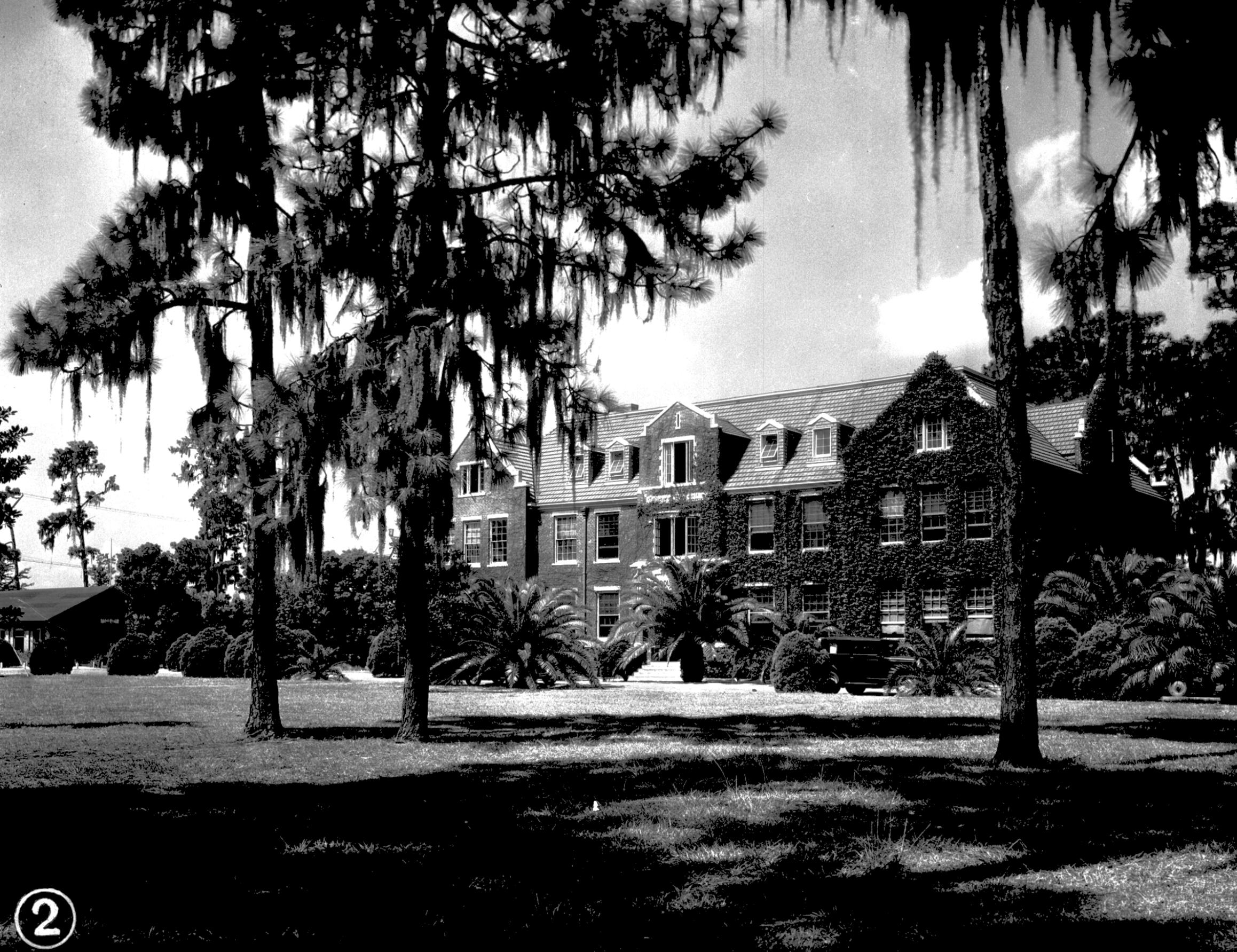 A historic photo of Floyd Hall